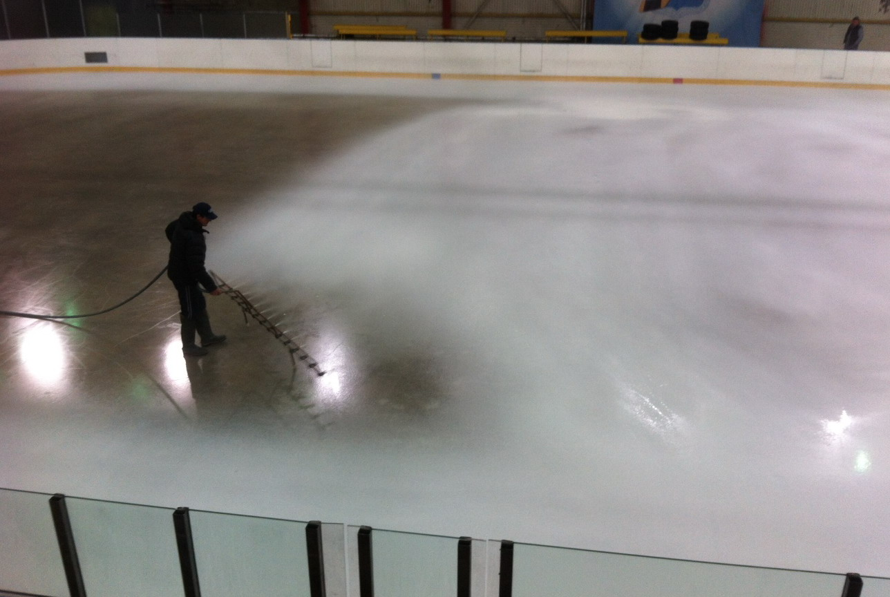 Покраска ледовой арены.